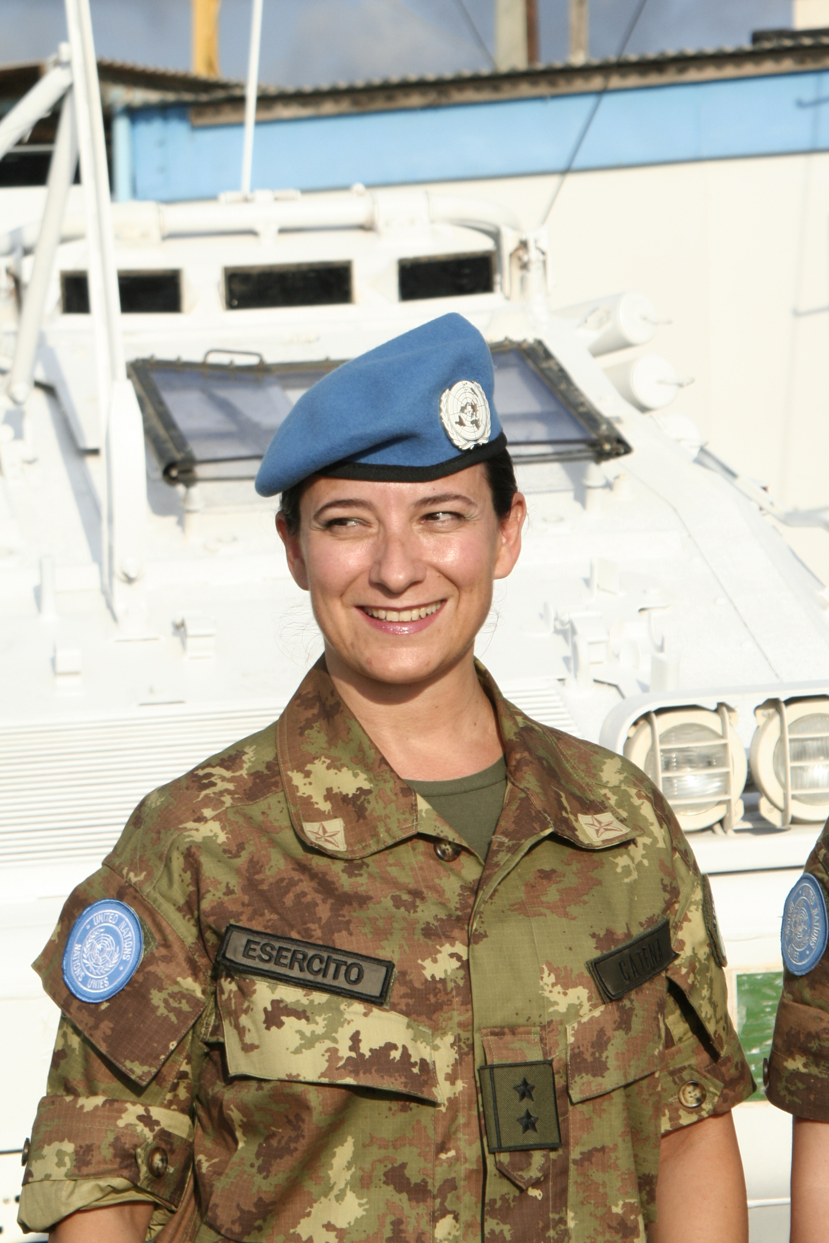 Lieutenant Marina Catena engaged in the Liban Mission FINUL